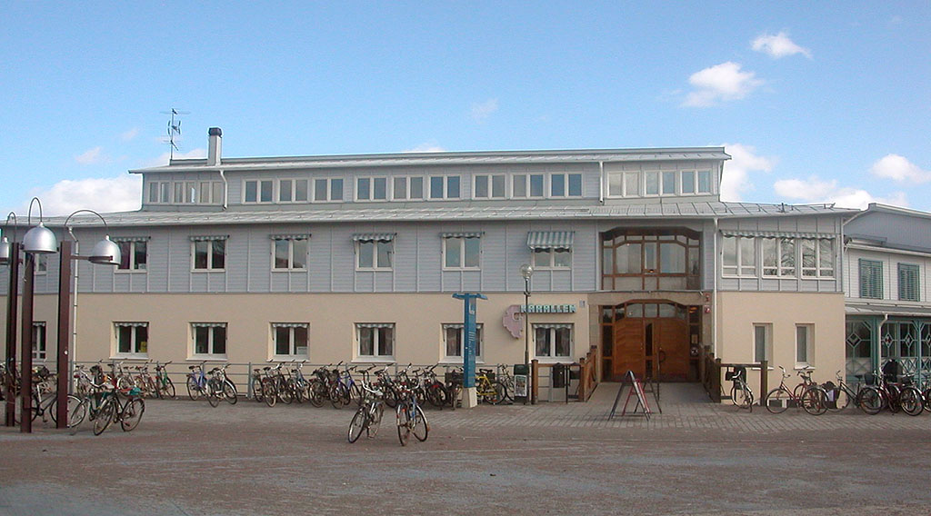 Student Union building (“Kårallen”) at Linköping University.